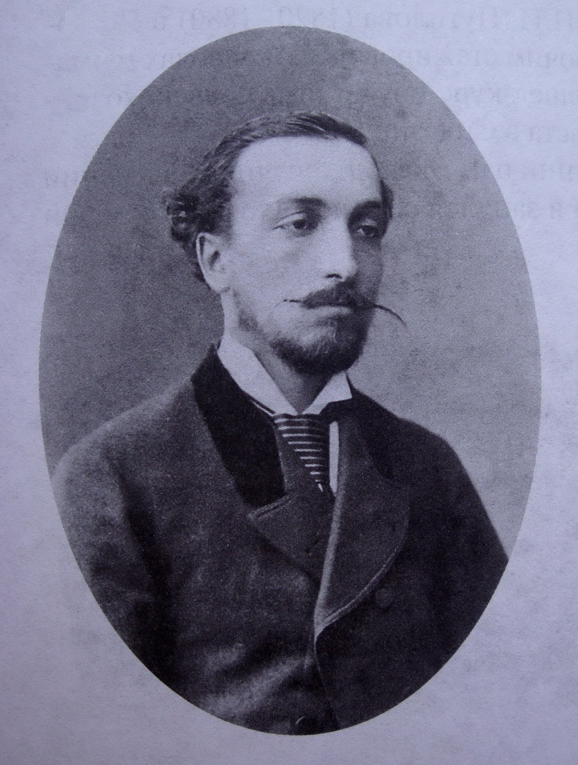 Edward Woynillowicz (1847–1928), leader of Minsk agricultural society